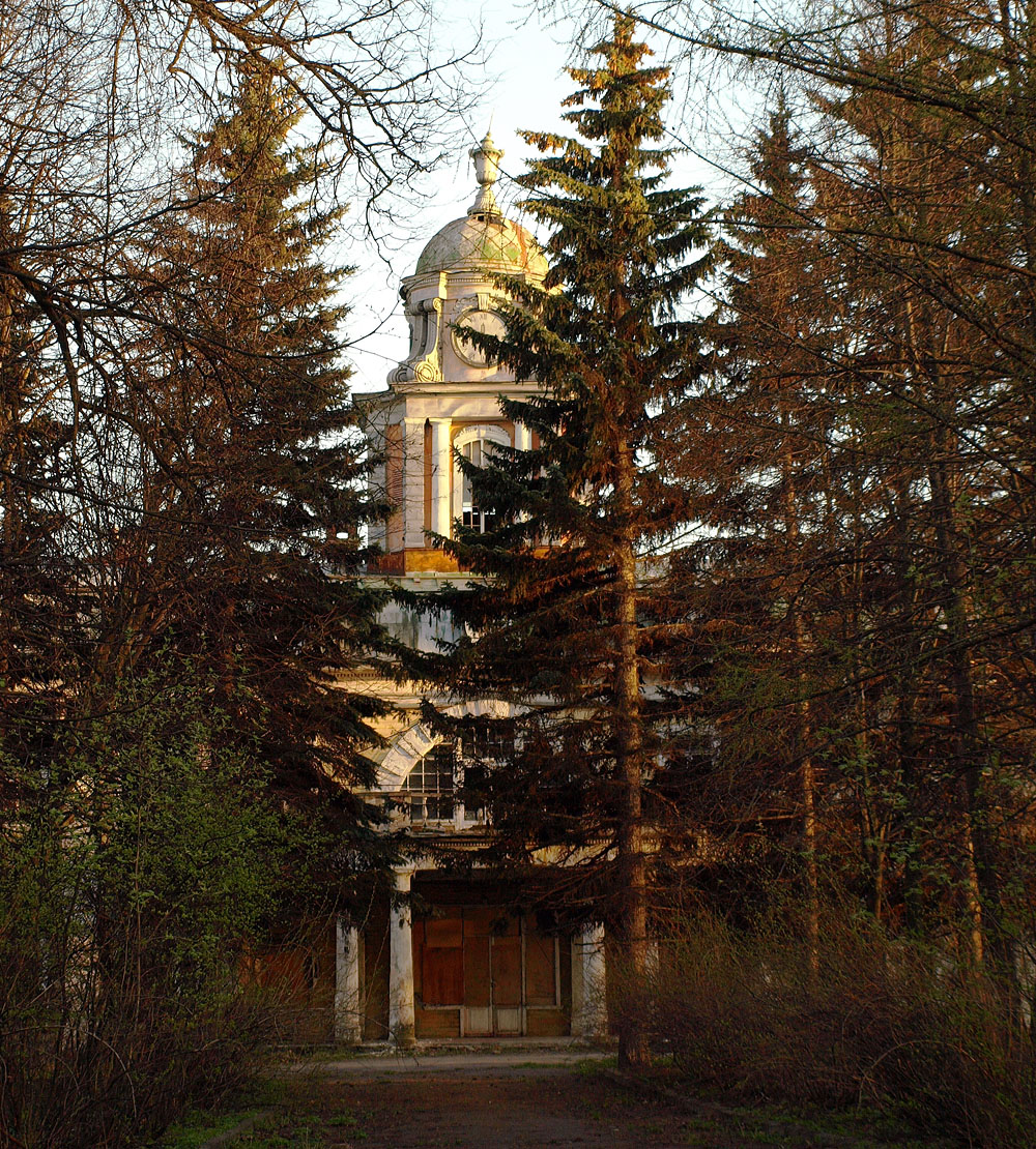 Vinogradovo Estate, Severny district of Moscow. 1912, Ivan Zholtovsky